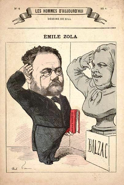 Émile Zola, the Rougon-Macquart under his arm, salutes his model Honoré de Balzac.